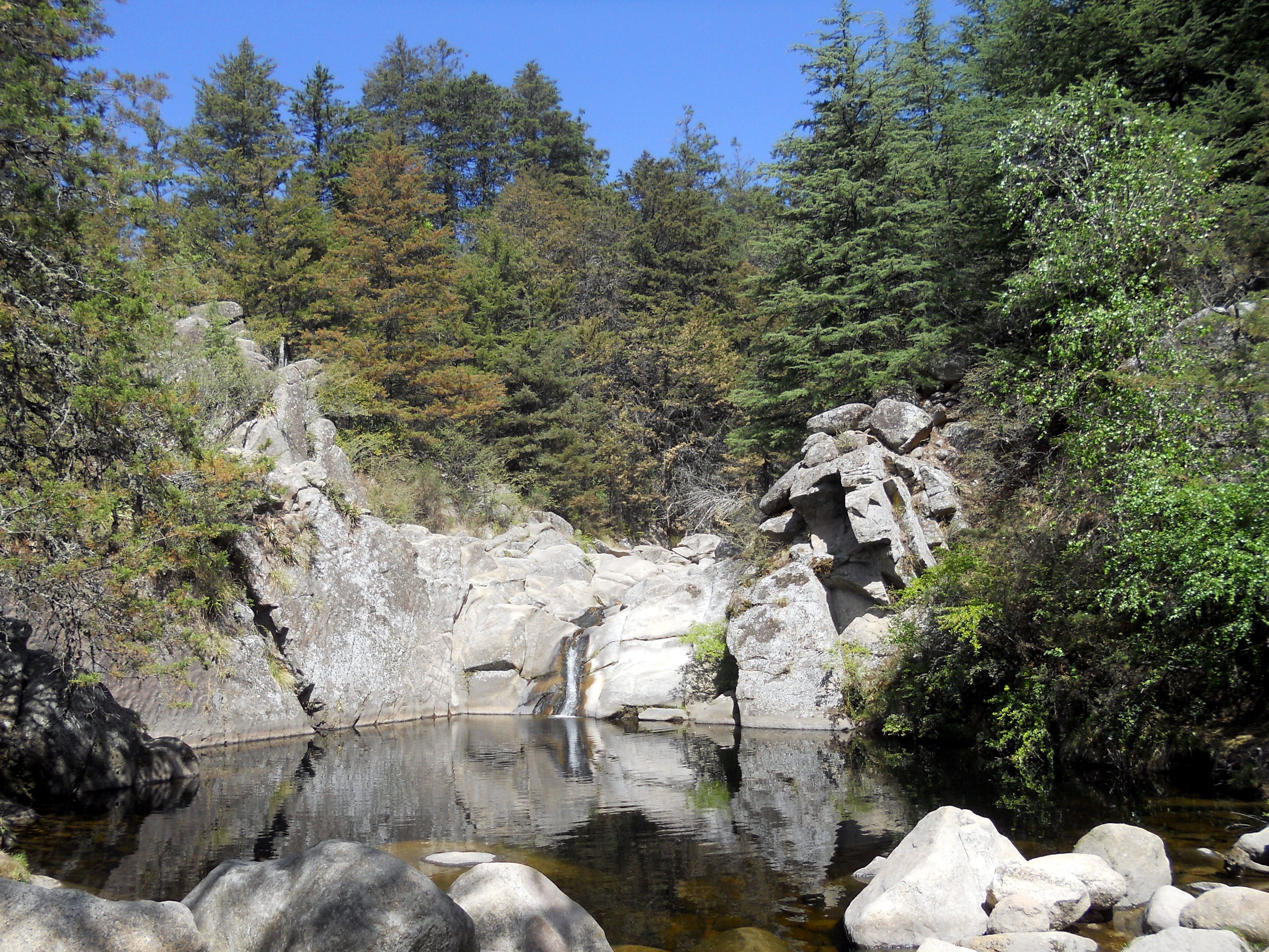 La Cumbrecita